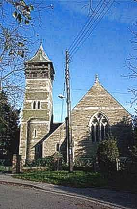 Holy Trinity parish church, Elvington, North Yorkshire